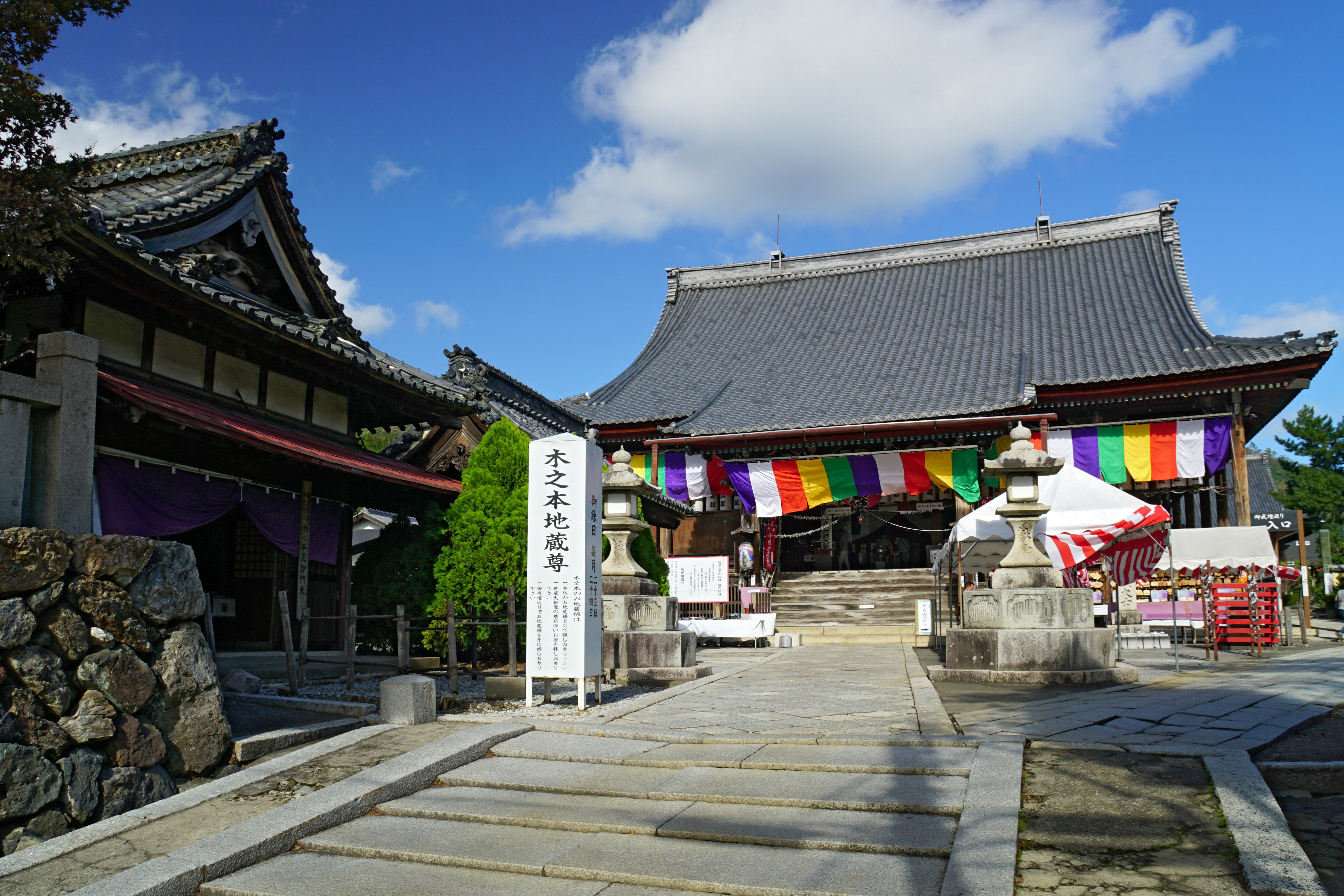 Kinomoto-Jizo-in in Nagahama, Shiga prefecture, Japan